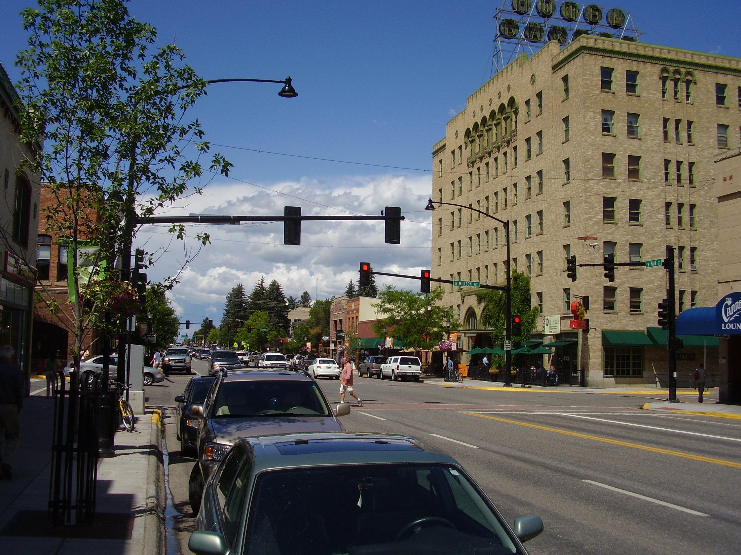 Street of Bozeman, MT (July, 2009).